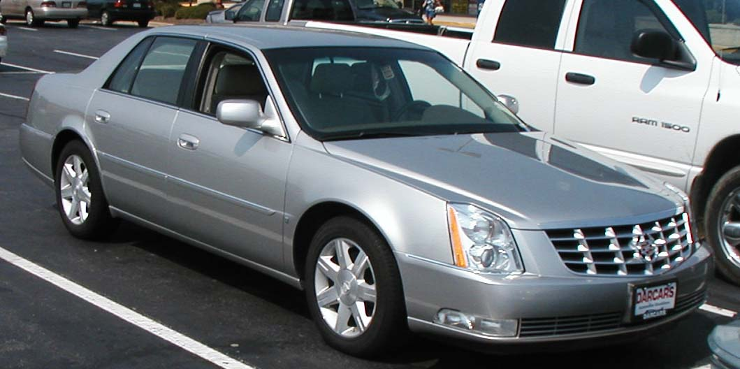 2006-2007 Cadillac DTS photographed in USA.